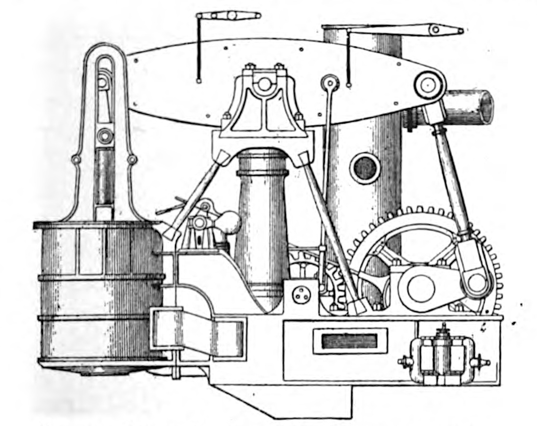 Illustration of a geared beam engine. This type of engine drove a screw propeller by means of a beam mechanism and gearing. The large gear wheel at bottom right engages with a pinion surrounding the propeller shaft, which can be seen in the lower centre.